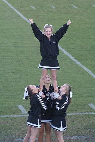 cheerleaders doing a prep